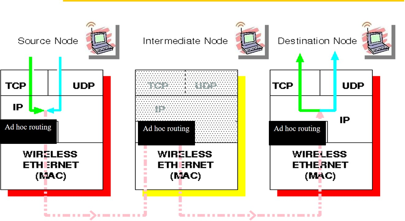 Ad hoc network software architecture